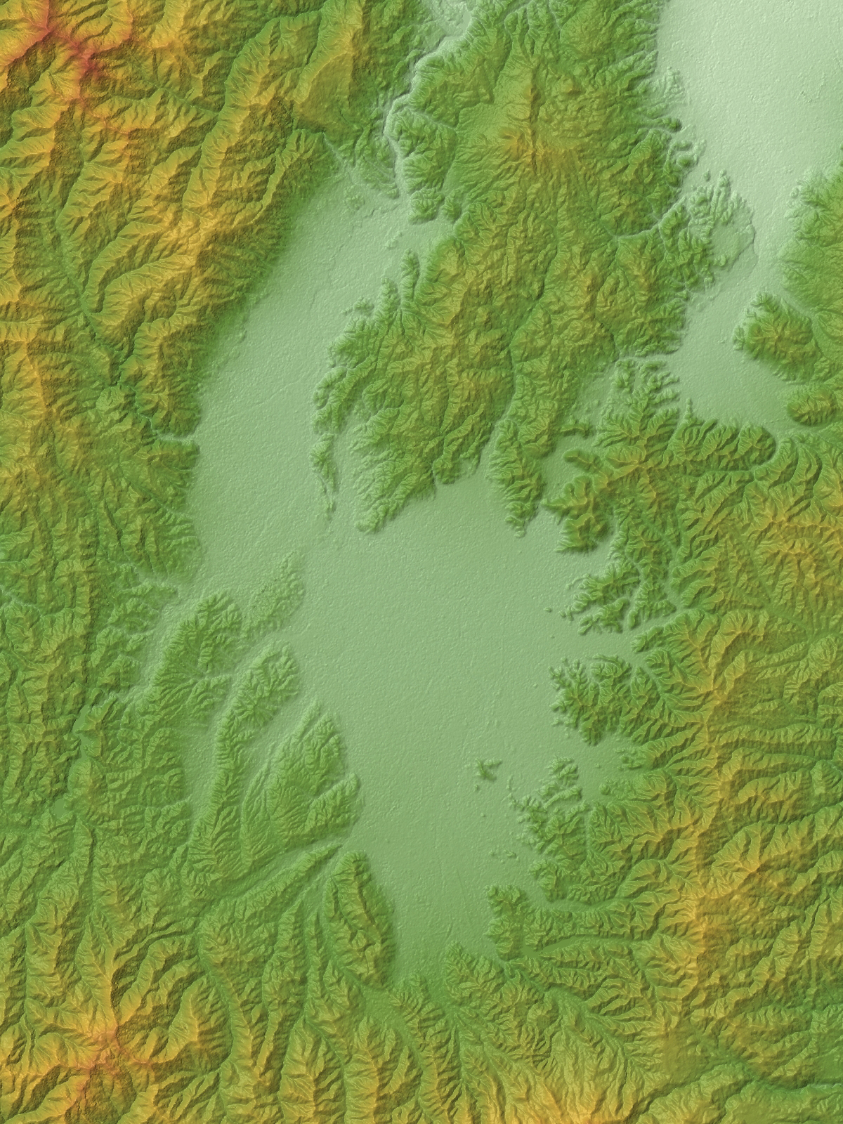 Yonezawa Basin in Yamagata Prefecture, Honshu, Japan.